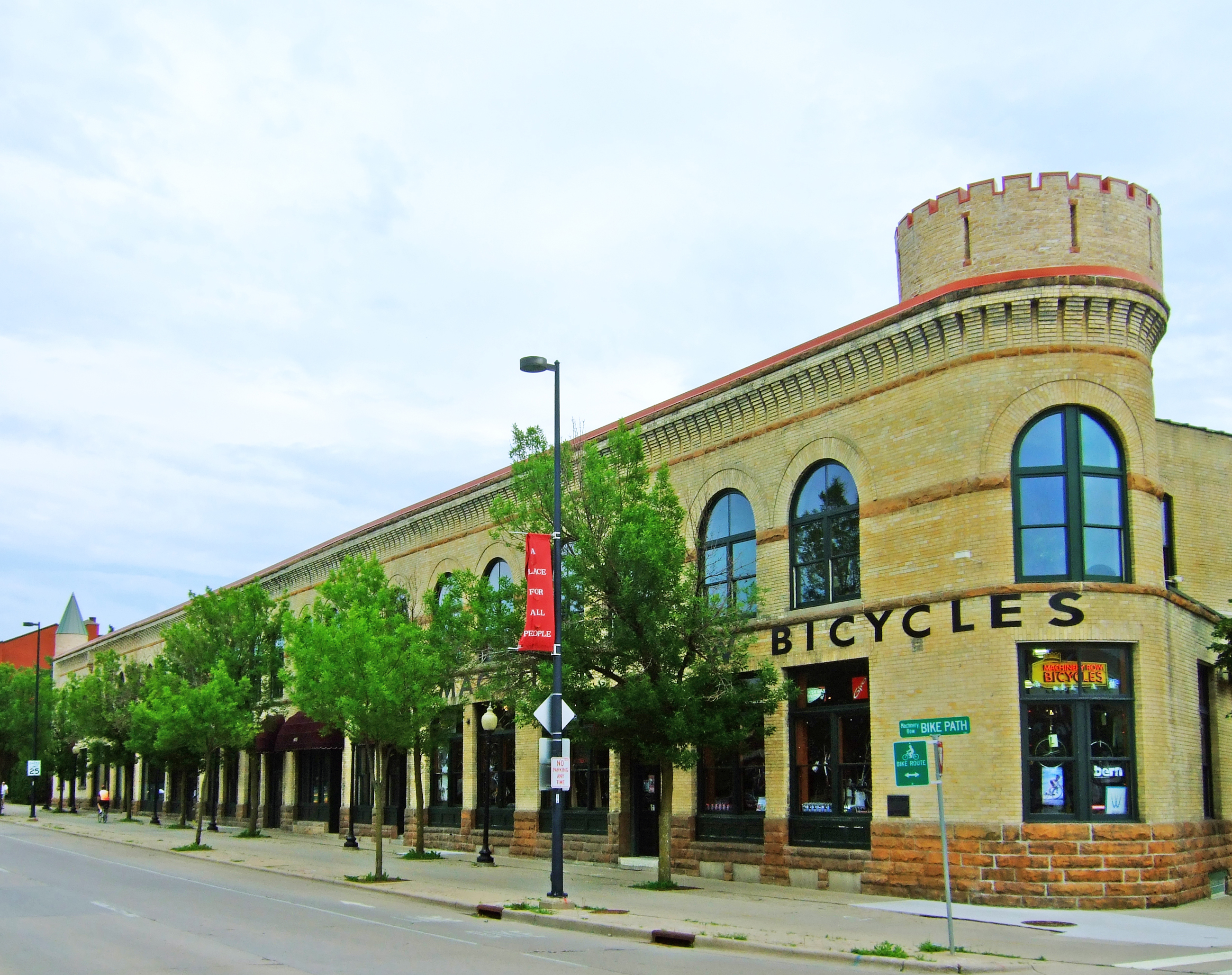 Machinery Row (1898-1914) in Madison, Wisconsin. This block-long group of brick buildings was originally known as the Brown Brothers' Business Block. It earned the nickname "Machinery Row" when several agricultural implement branch houses located here, part of the lively railroad shipping business that flourished in Madison in the early 1900s. This substantial Romanesque revival building was built gradually, in sections, replacing older wooden structures and an ice house. It combines utilitarian-industrial design with Richardsonian Romanesque motifs, including turrets. It was designed by the prominent local architectural firm Conover and Porter, which also designed the University of Wisconsin Armory and Gymnasium (the "Red Gym"). It was added to the National Register of Historic Places in 1982.